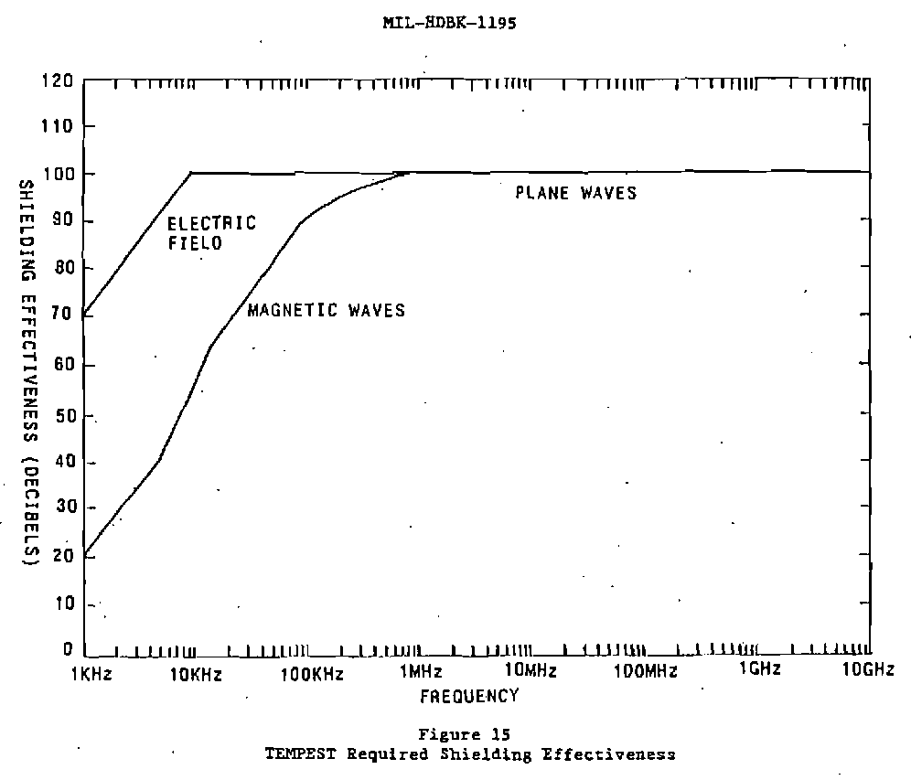 TEMPEST Shielding Effectiveness Requirements Graph from US Department of Defense handbook MIL-HDBK 1195, 30 September 1988.